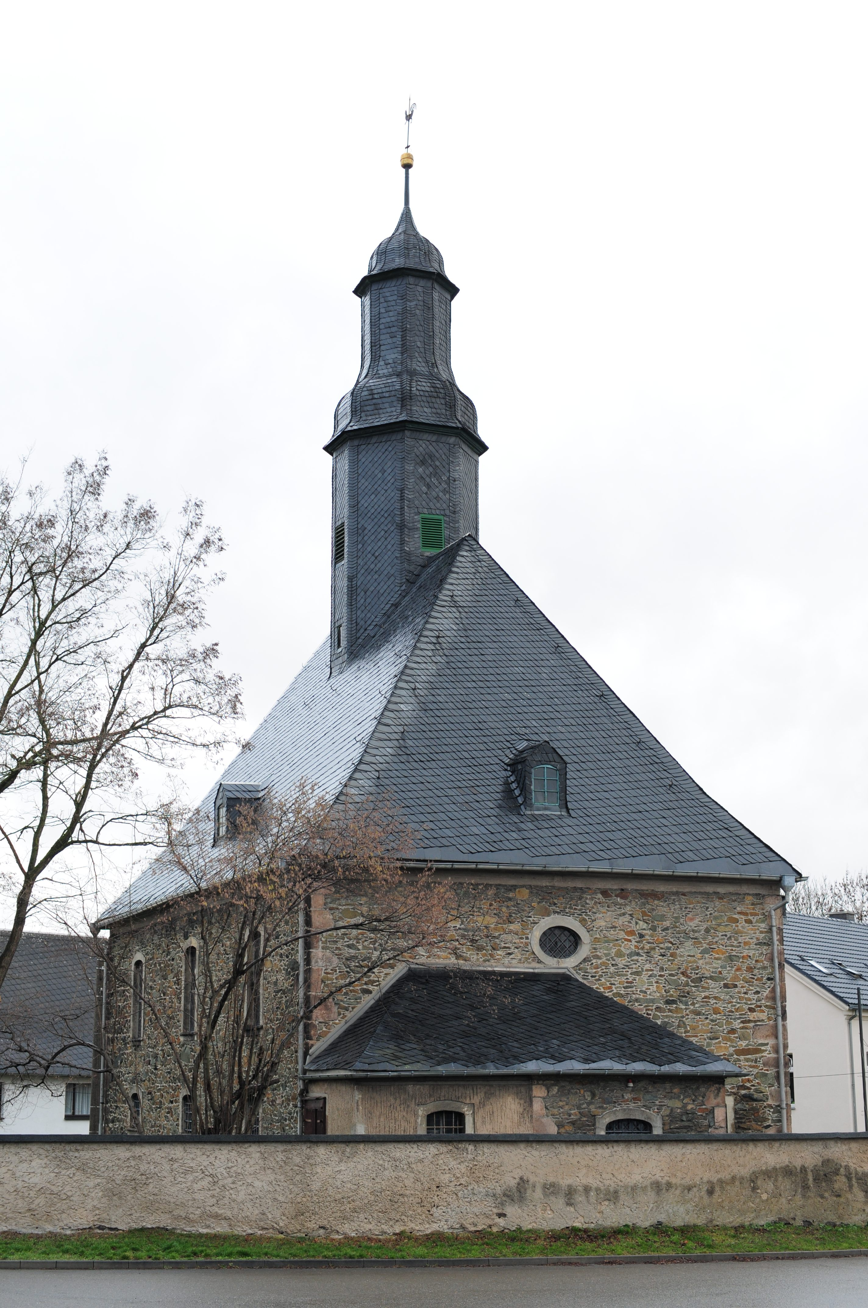 Wilkau-Haßlau, parish church St. Laurence of the urban district Culitzsch, built 1770-1773 (district Landkreis Zwickau, Free State of Saxony, Germany)